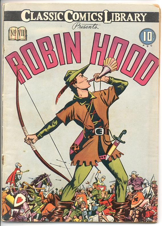 Cover scan of a Classics Comics book